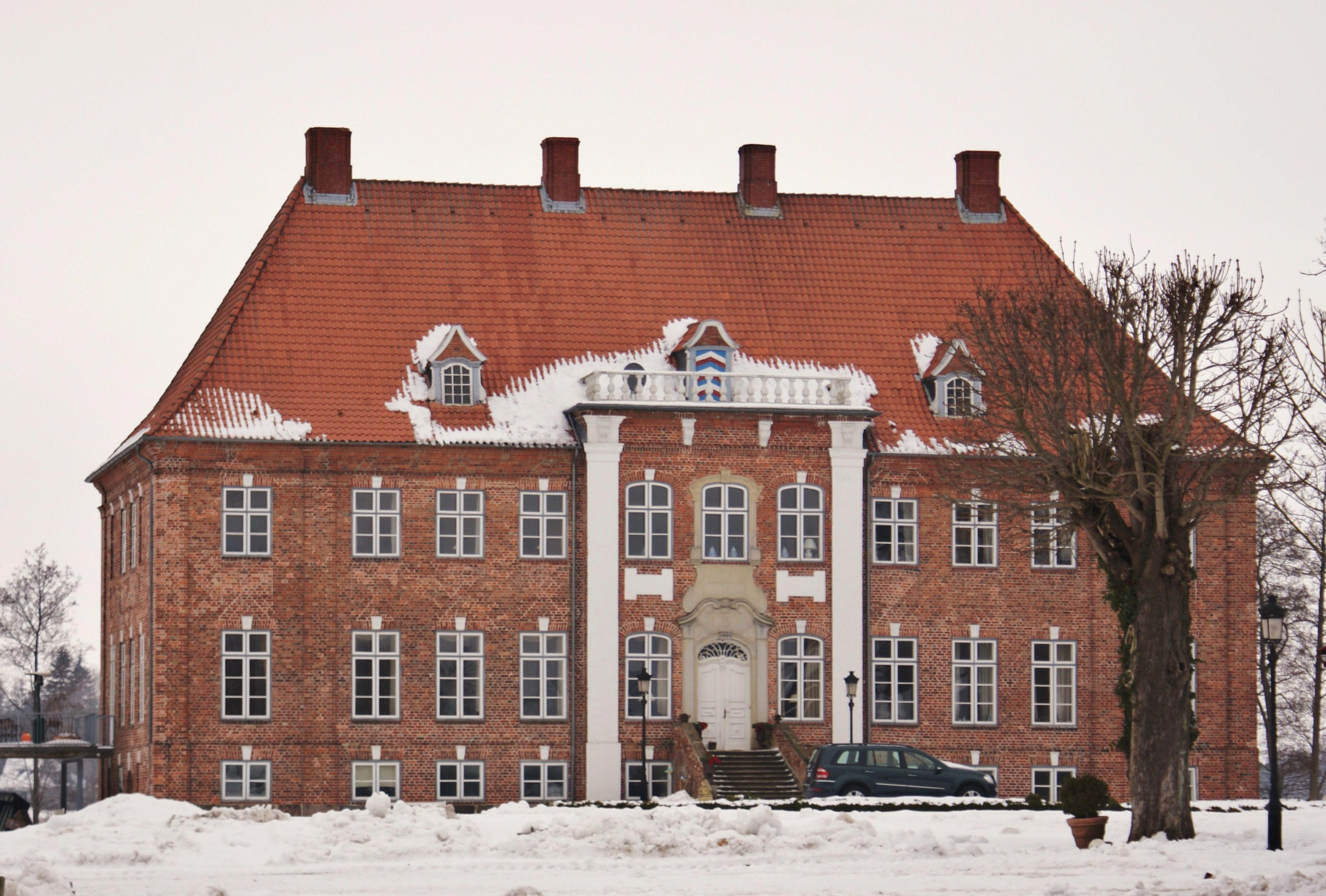 Dobersdorf Manor